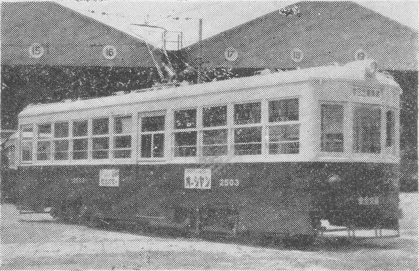 Osaka City Tram #2503